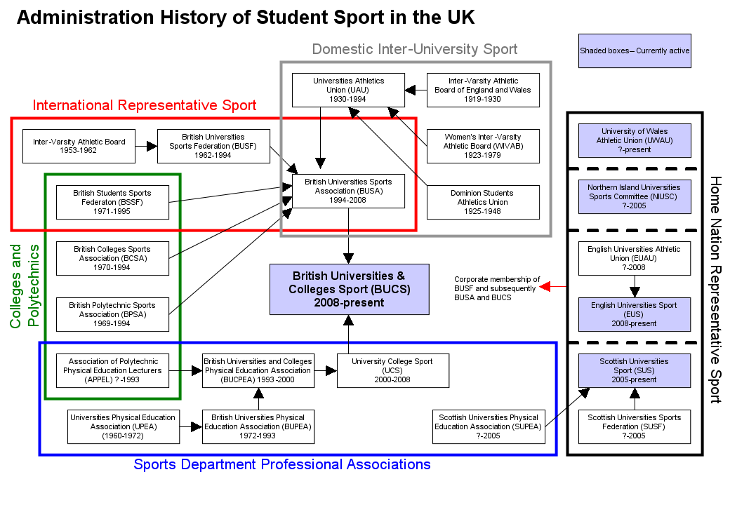 Diagram showing history of student sport administration in the UK